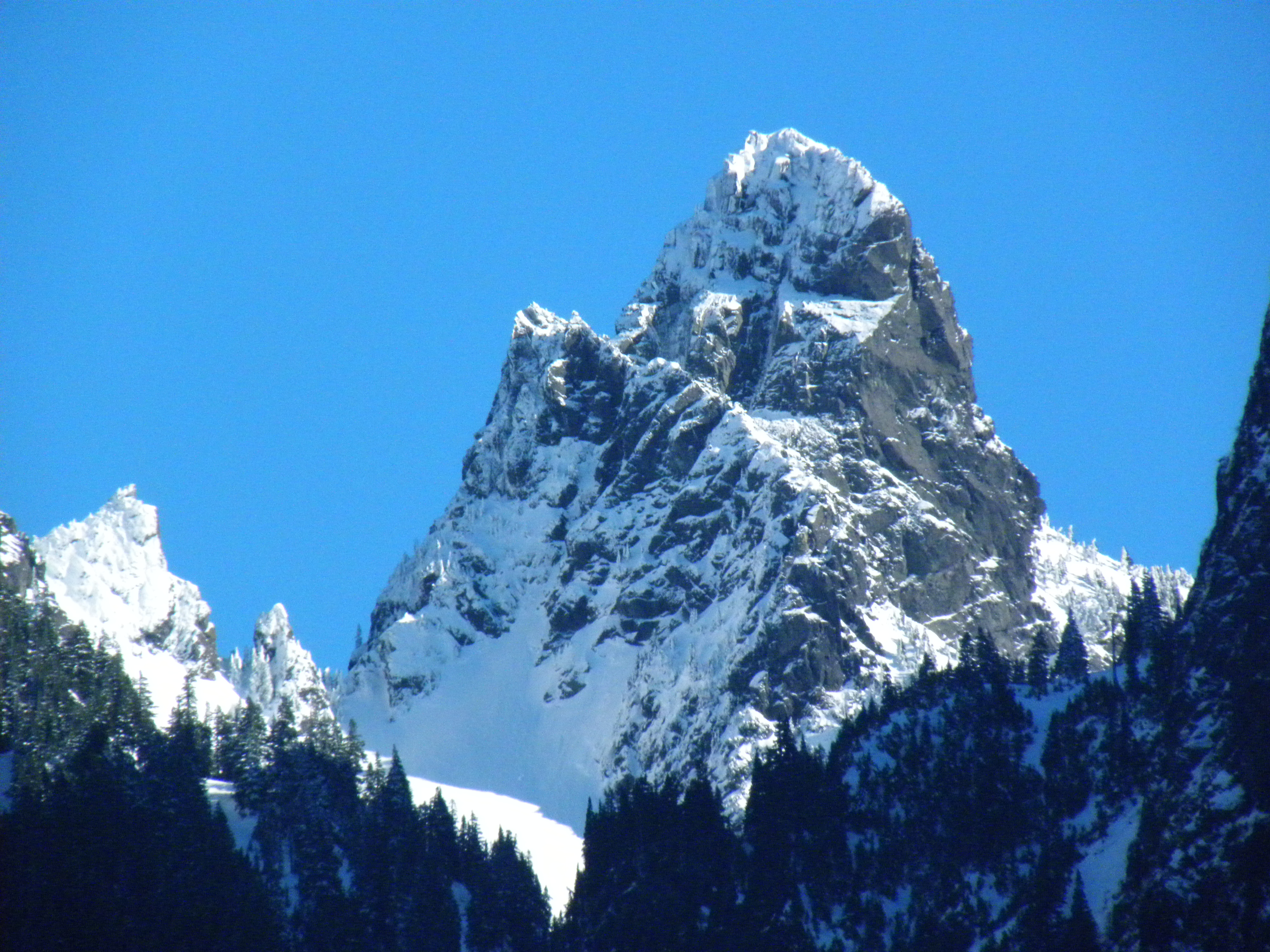 Gunn Peak close-up